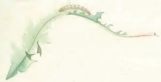 Iconographie et description de chenilles et lépidopteres inédits: Glacies alpinata